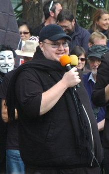 Kim Dotcom addressing a crowd (Cropped version of File:Kim Dotcom crowd.jpg)